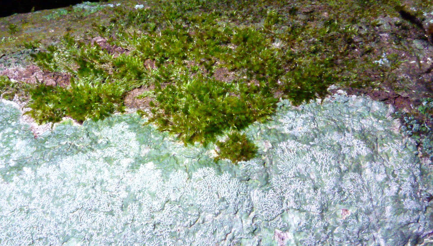 Lichen allelopathic effects keep mosses away. Wynaad, India